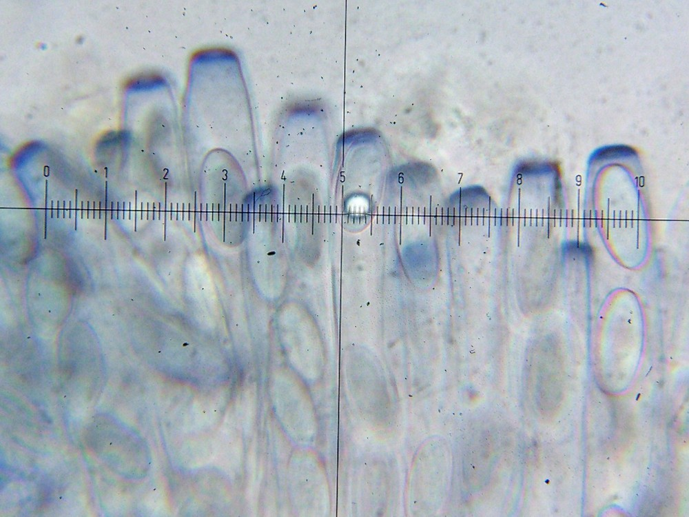 Ascobolaceae 20090911.13 Canada, BC, Wells Gray Park Ascus tips and spores stained in Lugol's solution, at 1000x.